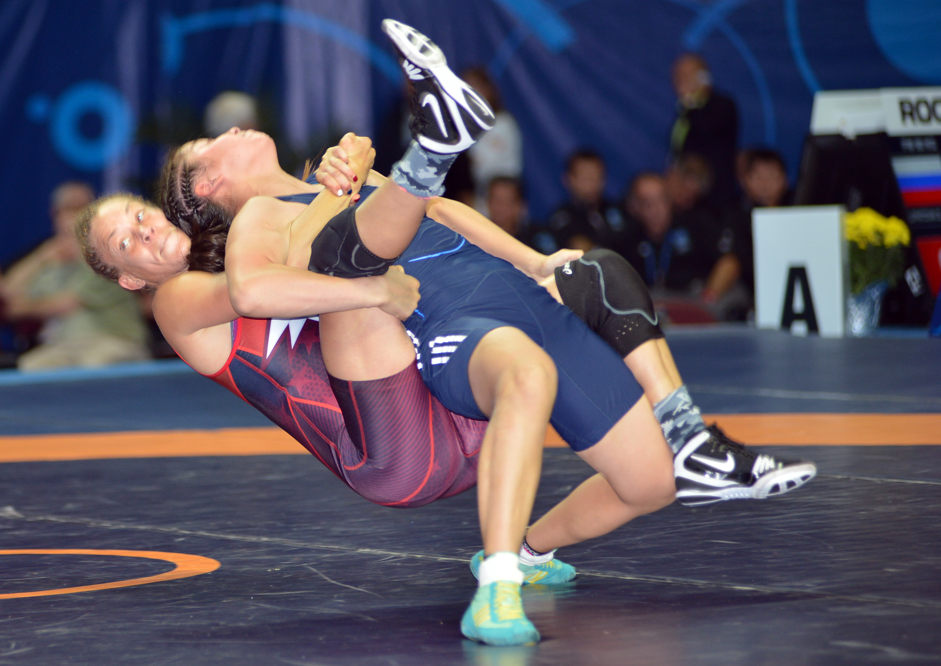 Capt. Leigh Jaynes-Provisor (left, in red) of the U.S. Army World Class Athlete Program throws Madena Bakbergenova of Kazakhstan in their opening match of the women's freestyle 60-kilogram division of the 2015 World Wrestling Championships on Friday at the Orleans Arena in Las Vegas. U.S. Army photo by Tim Hipps, IMCOM Public Affairs